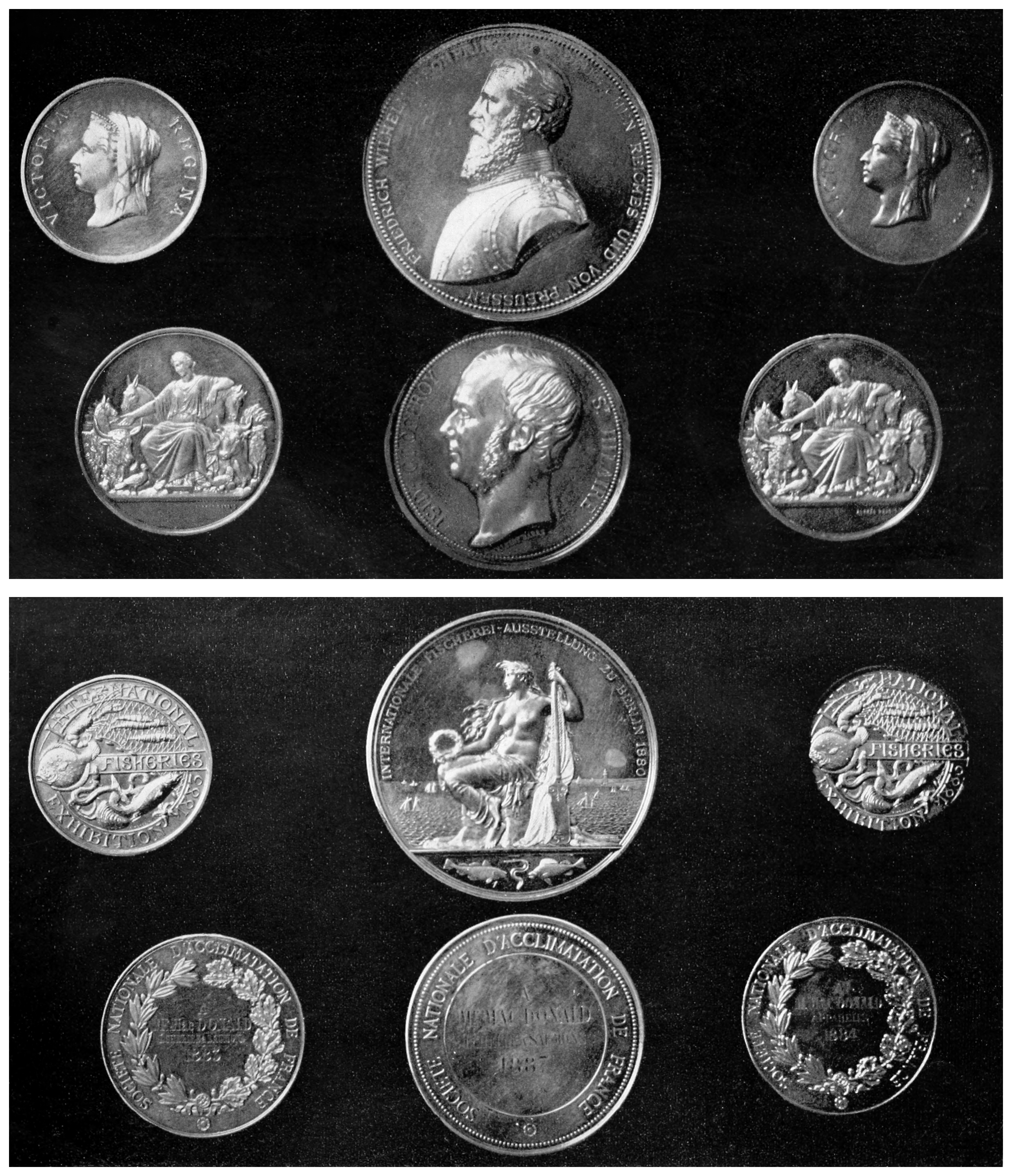 Medals Bestowed Upon Marshall McDonald for His Inventions in Pisciculture